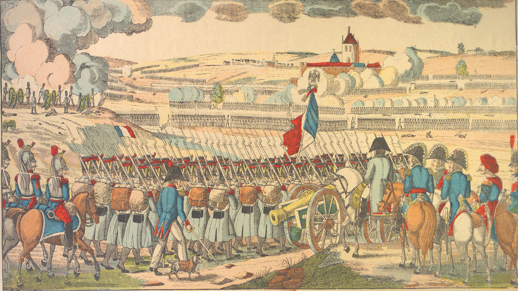 Battle of Lutzen (1813). French troops storm the positions of russians and prussians. Napoleon on his white horse, seen from behind, looks at the battlefield. Hand-coloured from Pennington Catalogue p. 3007.